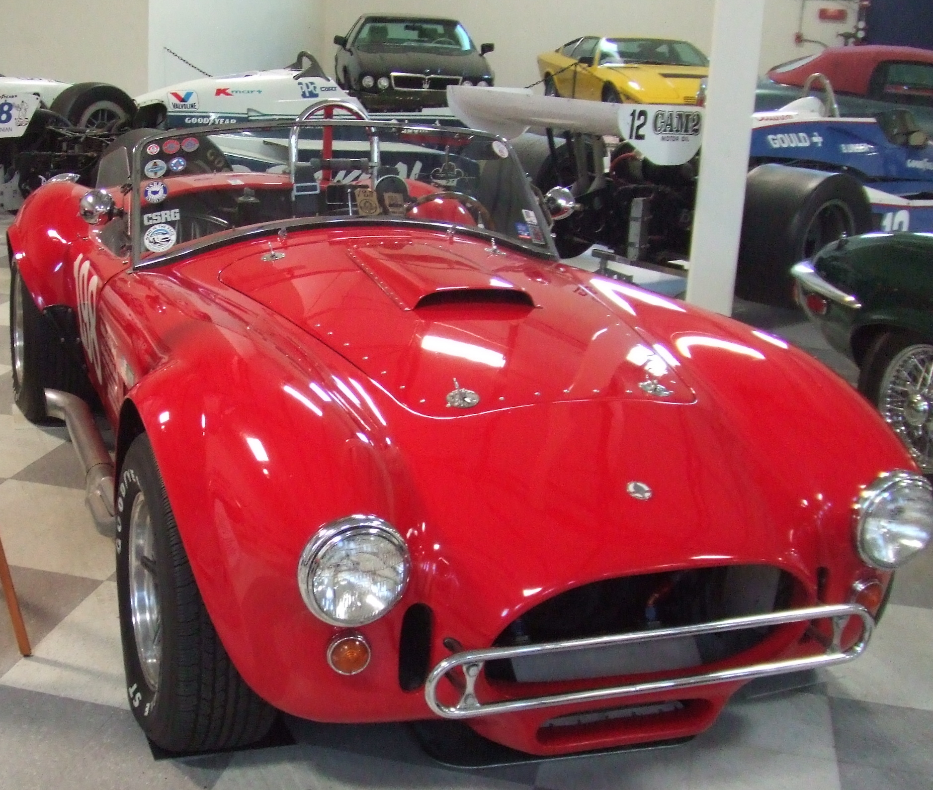 1966 Shelby 427SC Cobra at the Riverside International Automotive Museum in Riverside, California.